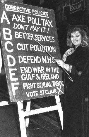 Marion Akin aka Miss Whiplash campaigning on behalf of the Correction Party for the Ribble Valley byelection in 1989.